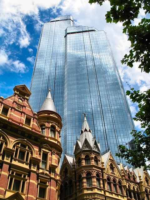 On the left is the Winfield Building, built in 1891, and on the right is the Rialto Building from 1889. In the background are The Rialto Towers, in Melbourne, Australia.